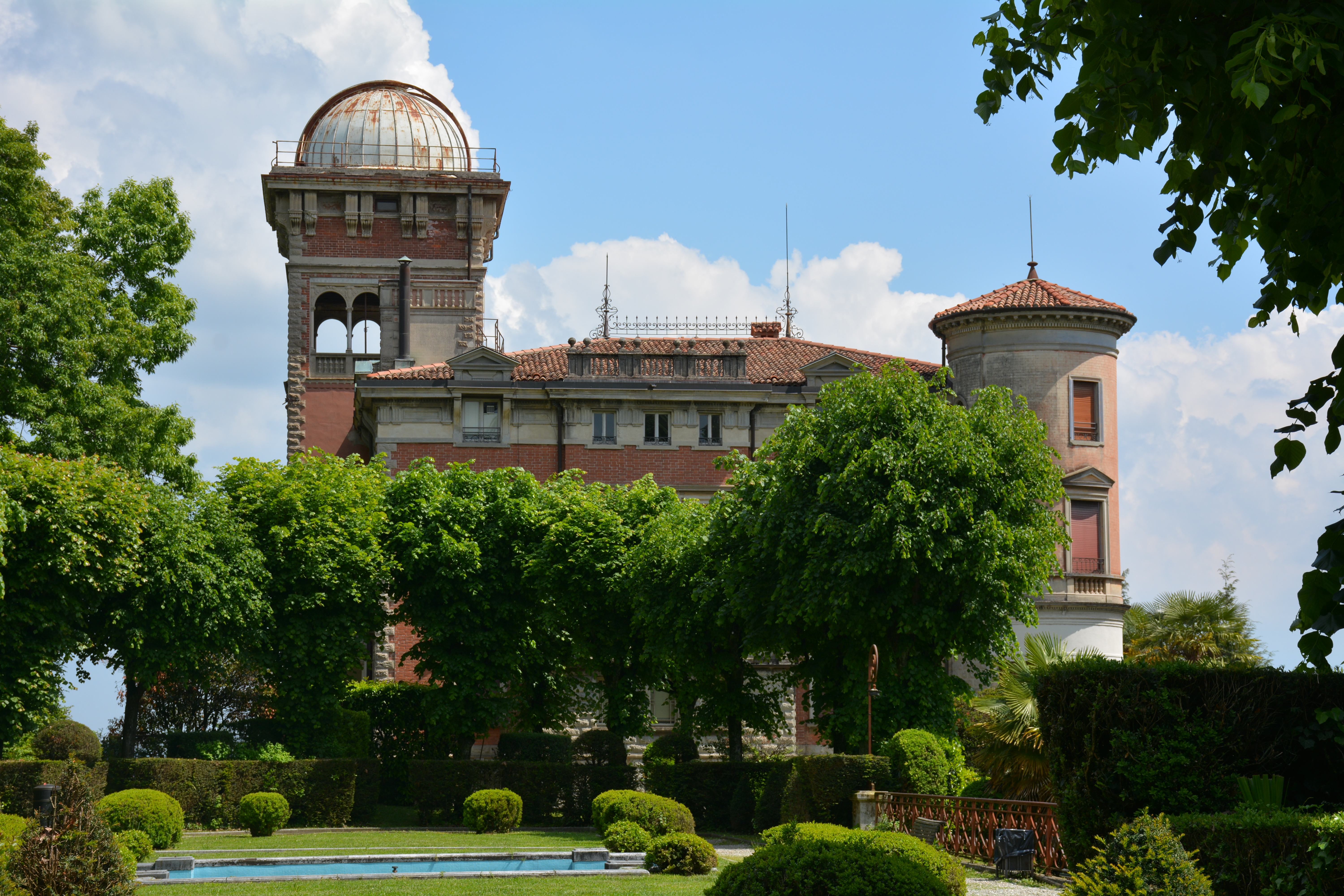 This picture shows the Villa with a fountain infront